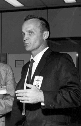 This photo is dated October 14, 1964, and shows Warren J. North from the Manned Spacecraft Center.